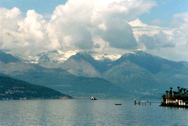 View of Lake Como and the Alps from Bellagio